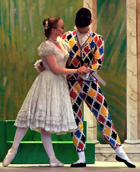 Harlequin and Columbine from the mime theater at Tivoli, Denmark.